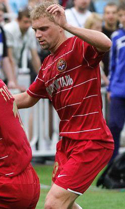 Vasile Caraus, Moldovan footballer, during the game for Metalurh ZaporizhyaRomână: Vasile Caraus, un fotbalişt moldovean, in timpul jocului pentru FC Metalurg Zaporijia